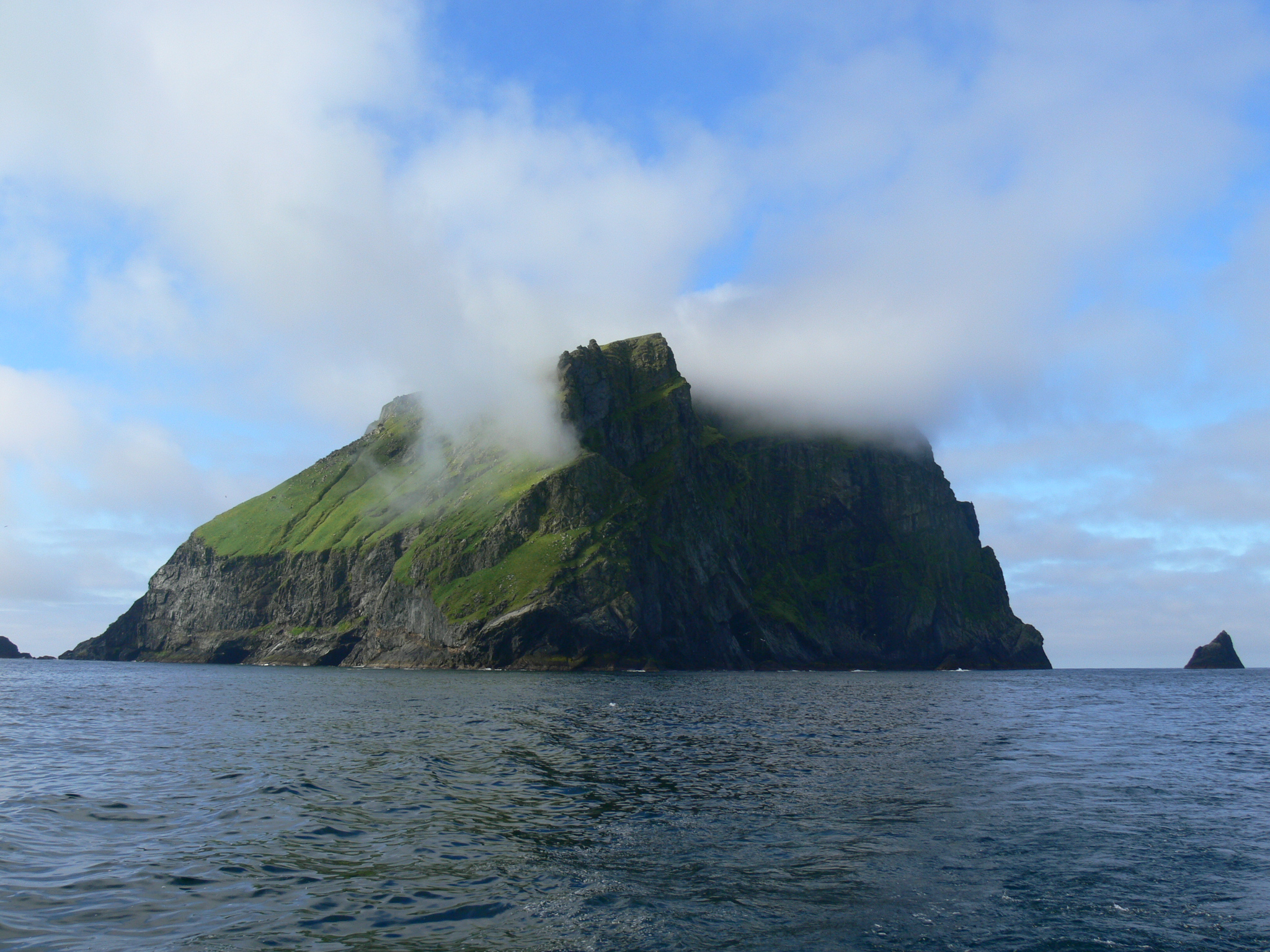 Soay, St Kilda, Outer Hebrides, Scotland